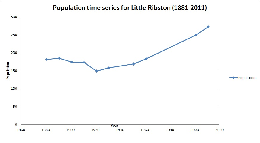 Population time series for Little Ribston between 1881 and 2011, using vision of Britain census data and the office of national statistics.